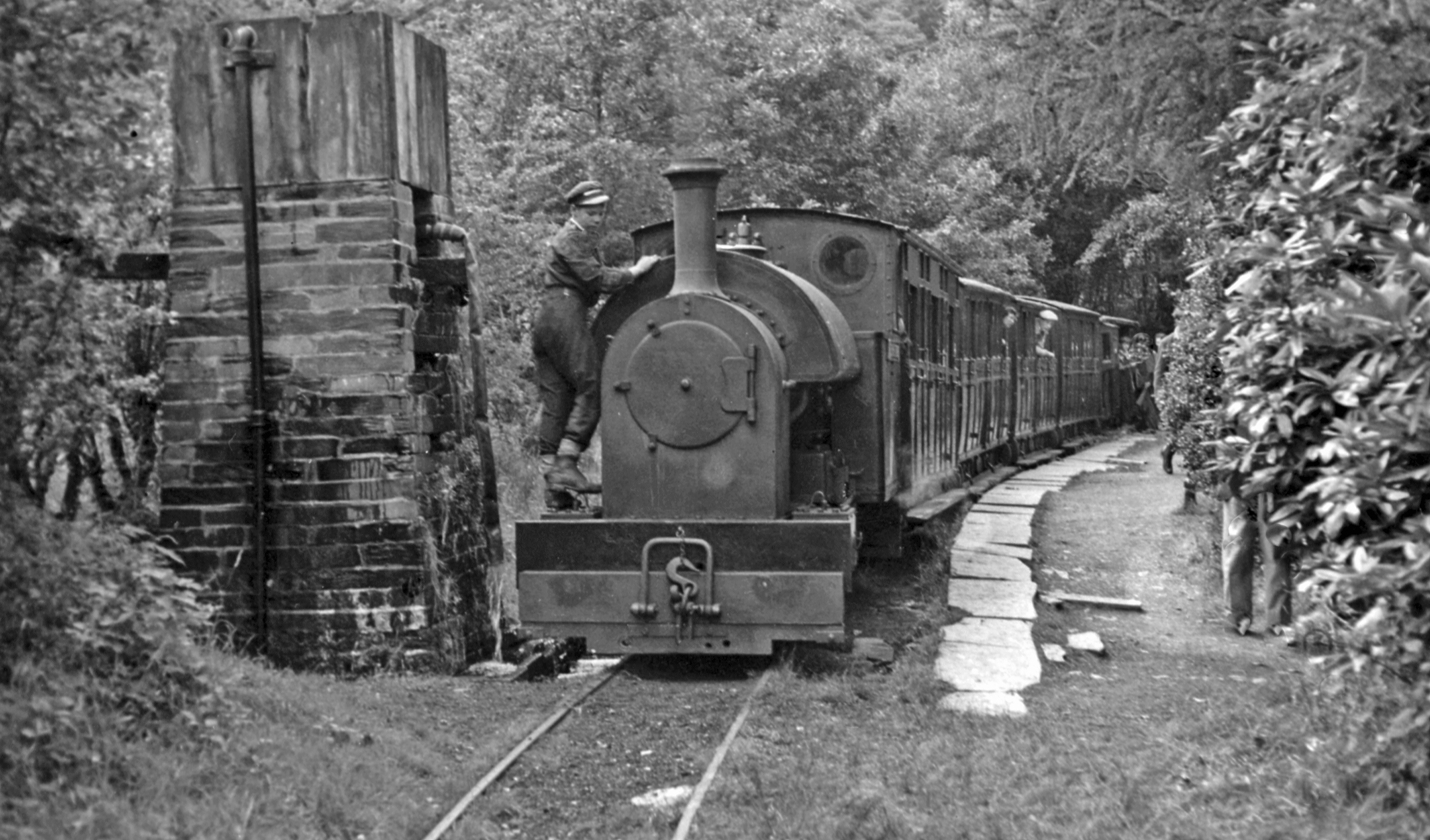 Towyn - Abergynolwyn train at Dolgoch, 1952View SW on the Talyllyn (2'3") Railway, restored 1951. The locomotive is 0-4-2ST No. 4 'Edward Thomas' (built 1921 for the Corris Railway, purchased by the Talyllyn Railway Preservation Society in 1951).